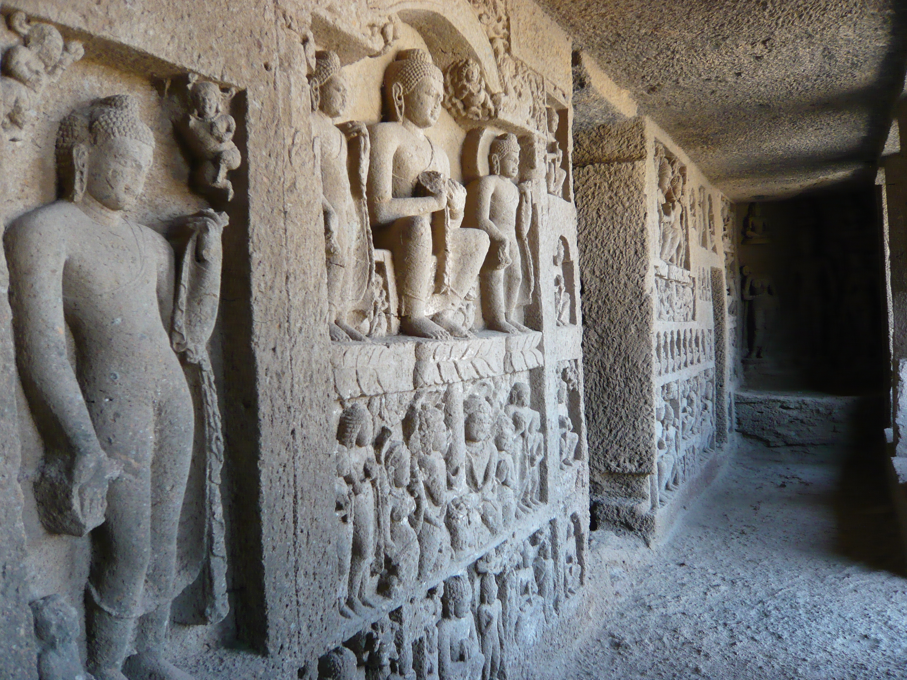 Elephanta Caves